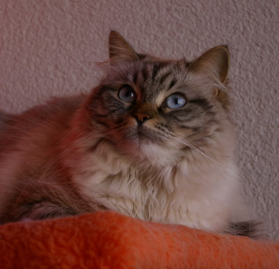 Neva Masquerade